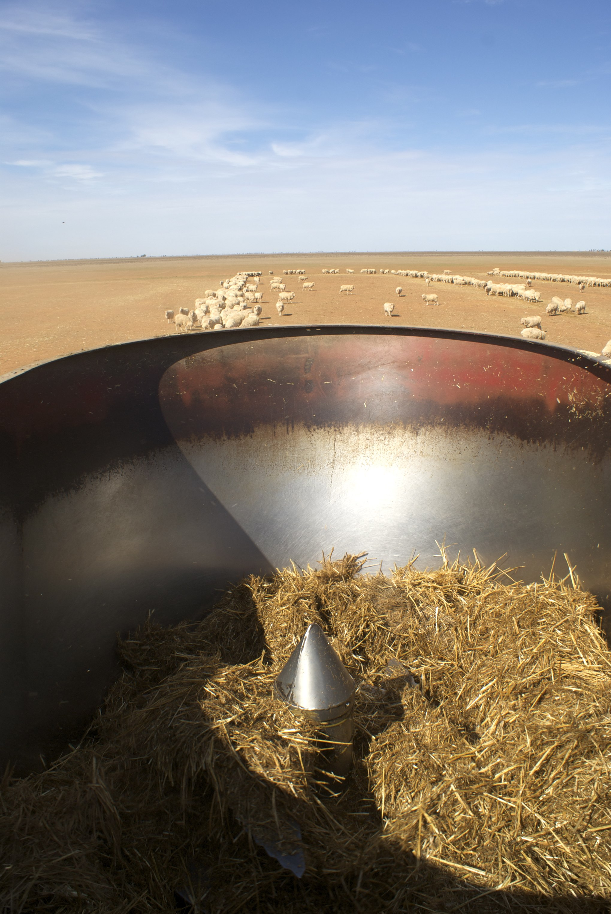 Fodder mixing trailer near Carrathool, New South Wales, Australia